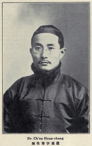 Chen Huanzhang (1881－1933)